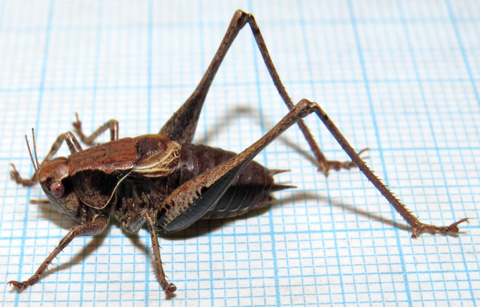 Male Dark bush-cricket Pholidoptera griseoaptera